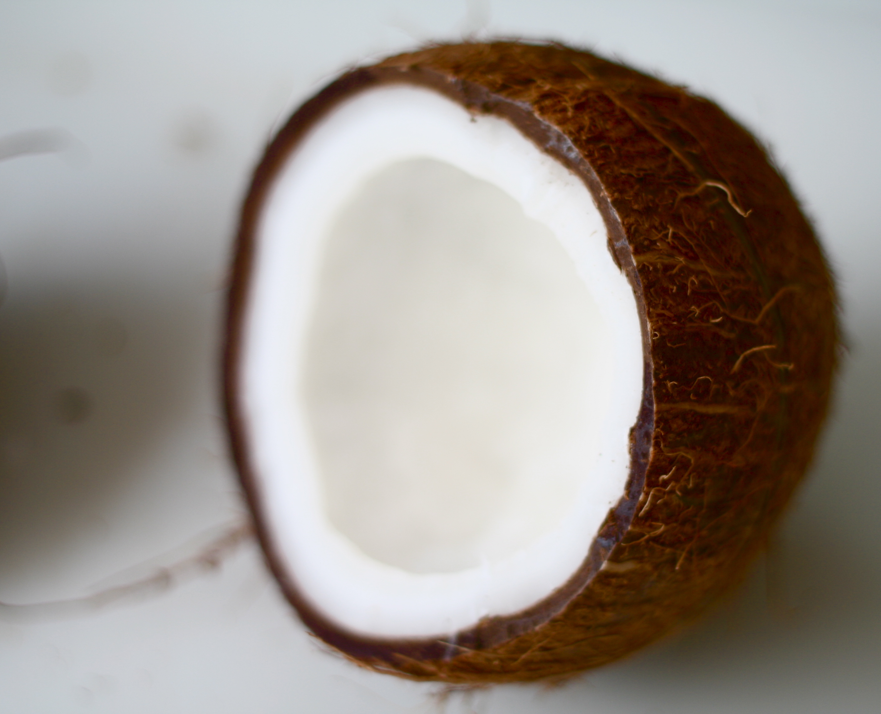 the kids' grandmother brought a coconut for the kids to check out- here it is freshly split.